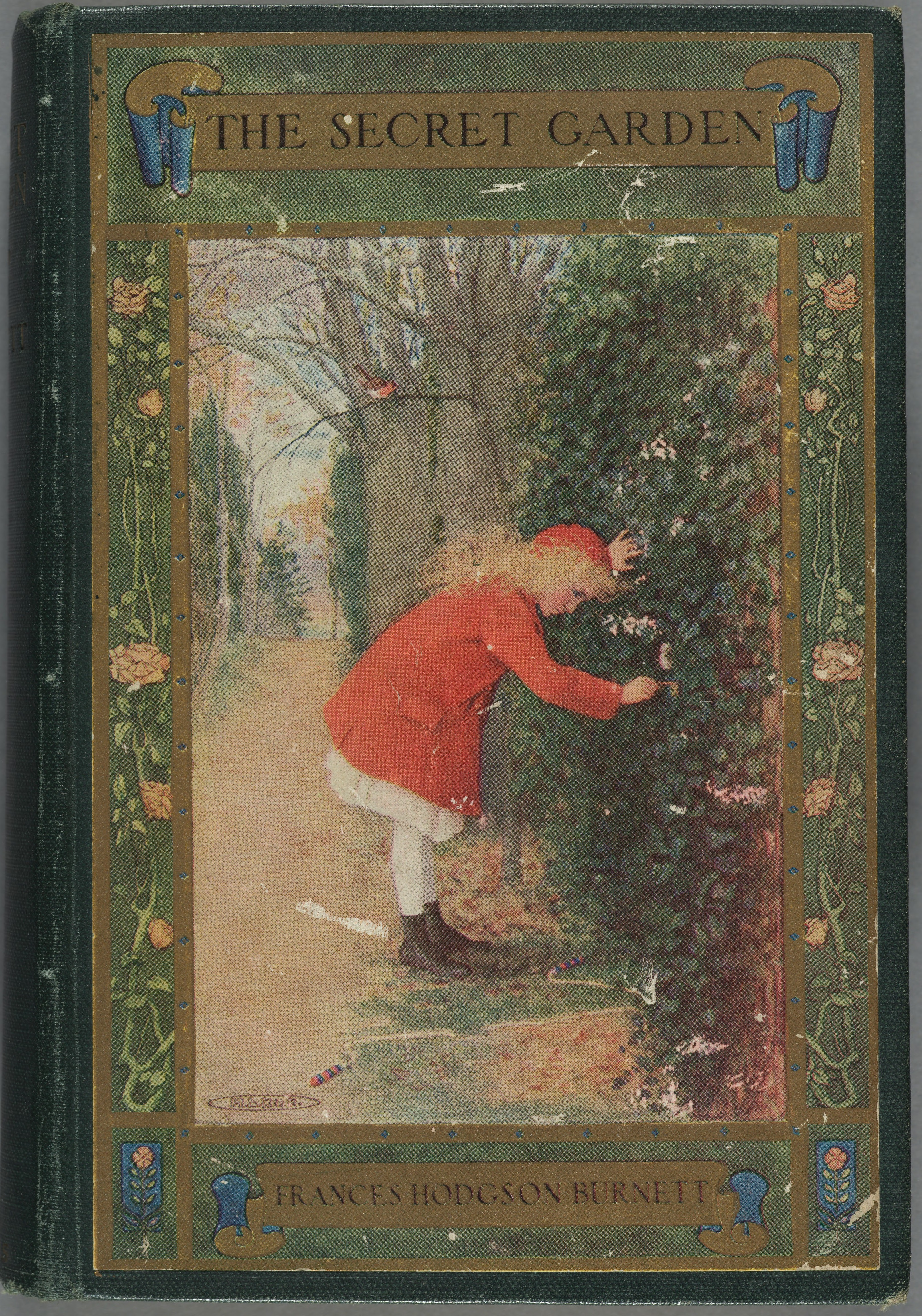 Cover: The Secret Garden by Frances Hodgson Burnett (1849-1924). Publisher: New York: F.A. Stokes, 1911. *AC85 B9345 911s, Houghton Library, Harvard University